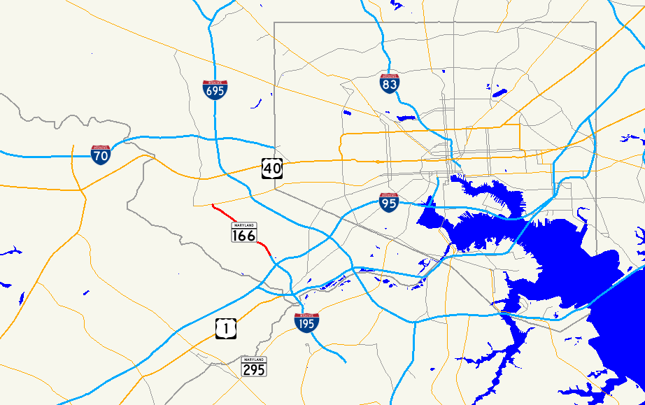 Map of Maryland Route 166